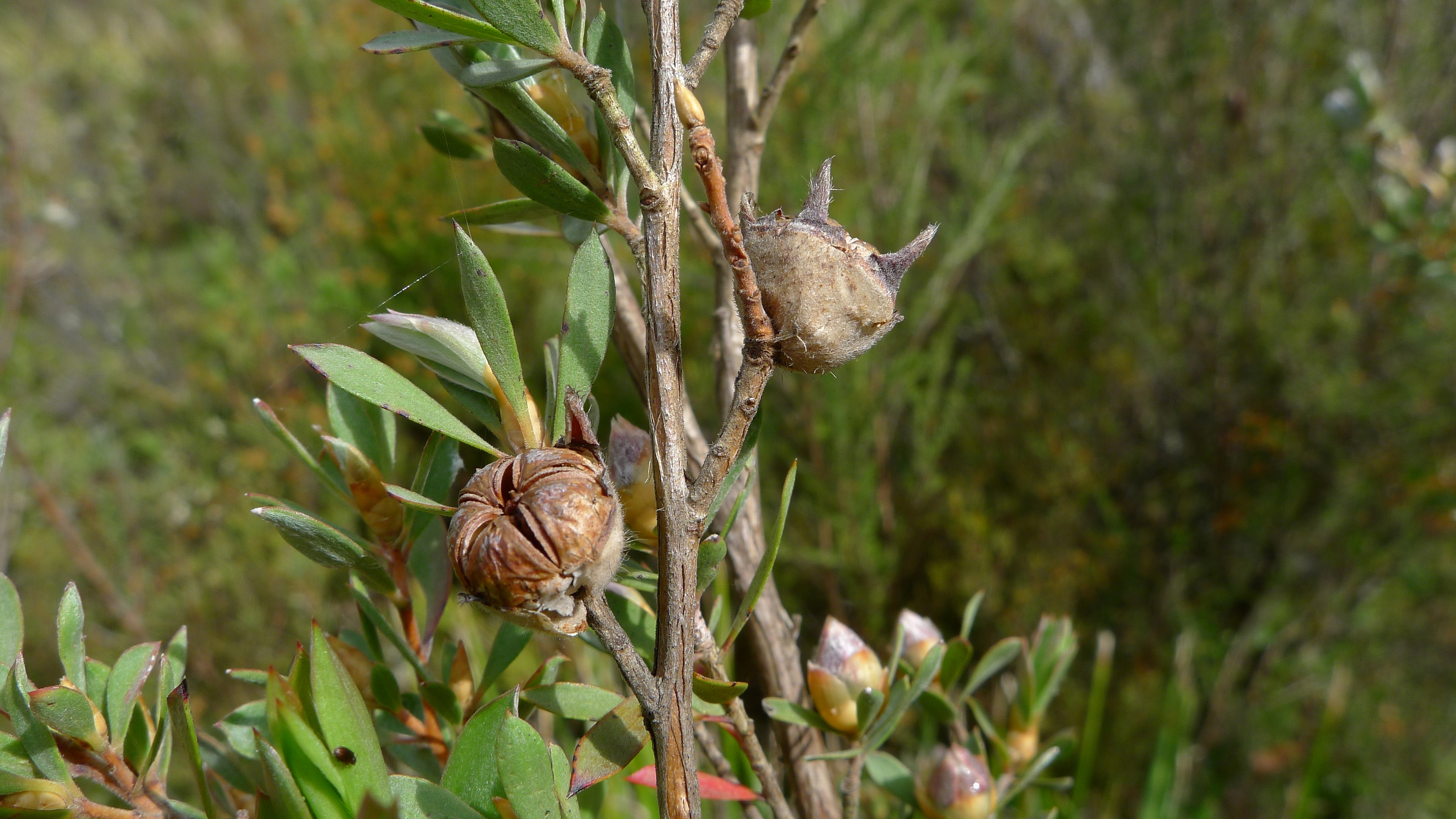 Woolly Tea-tree, Leptospermum grandifolium. Capsules are woolly and about 8-10 mm across. Wog Wog, Morton National Park, NSW Australia, November 2012.